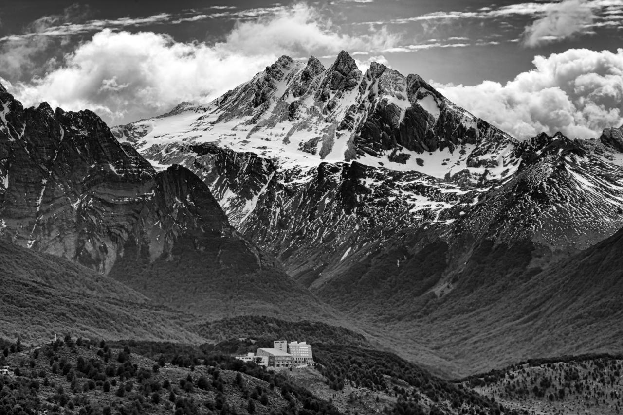 View from Las Hayas Hotel